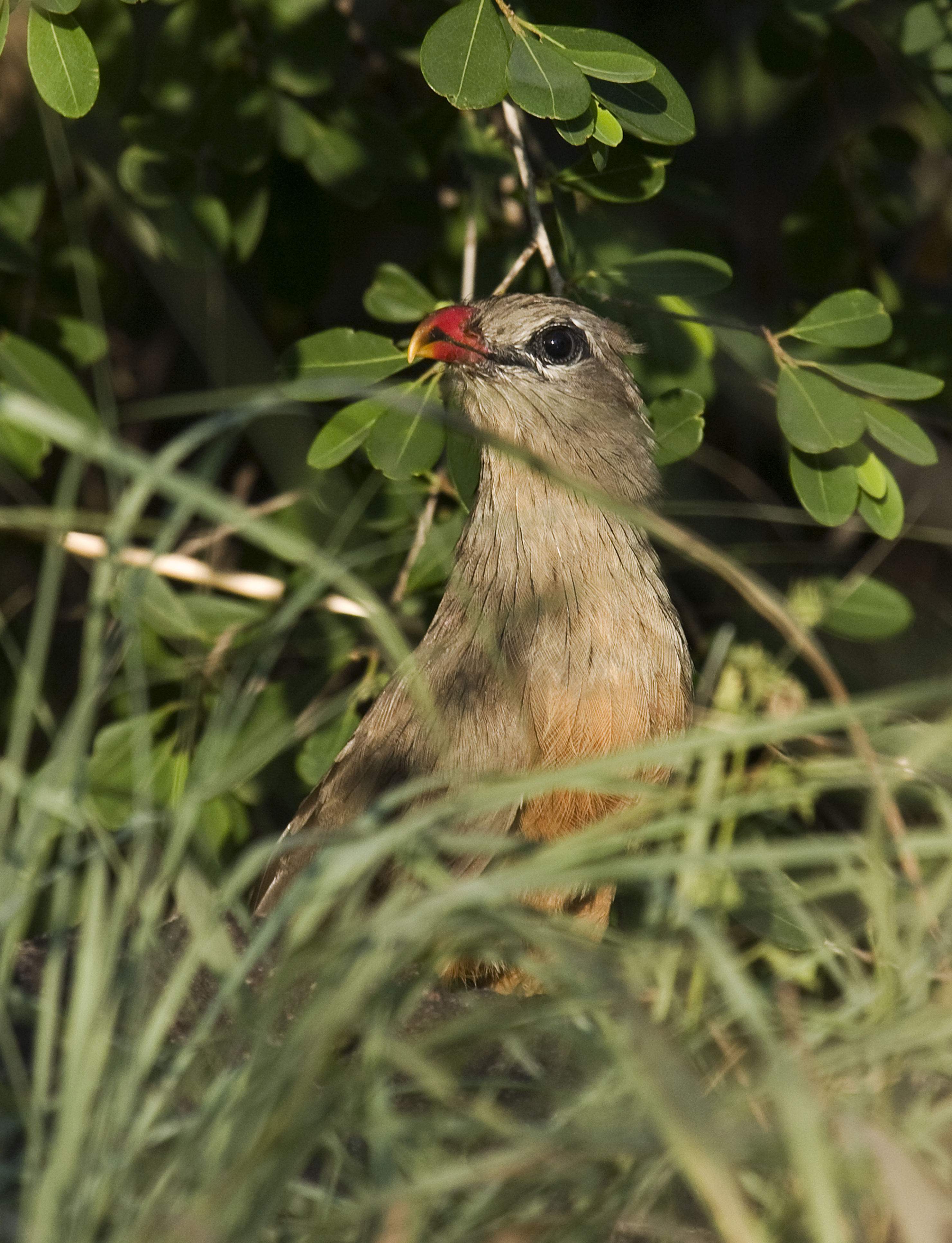 Sirkeer Malkoha or Sirkeer Cuckoo (Phaenicophaeus leschenaultii).